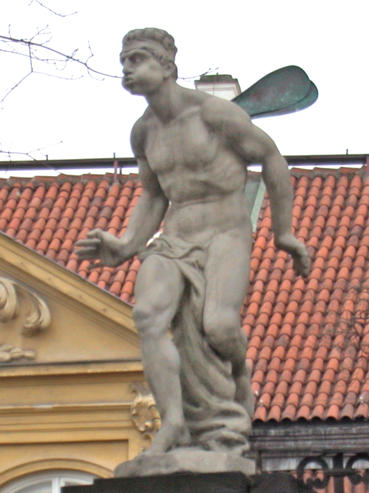 Statue of Notus (or Notos), Greek god of the south wind, at the Palace of the Four Winds in Warsaw (cropped and mirrored image)